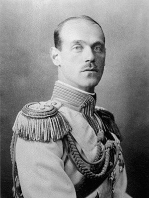 Grand Duke Michael Alexandrovich of Russia, sometimes called Emperor Michael II